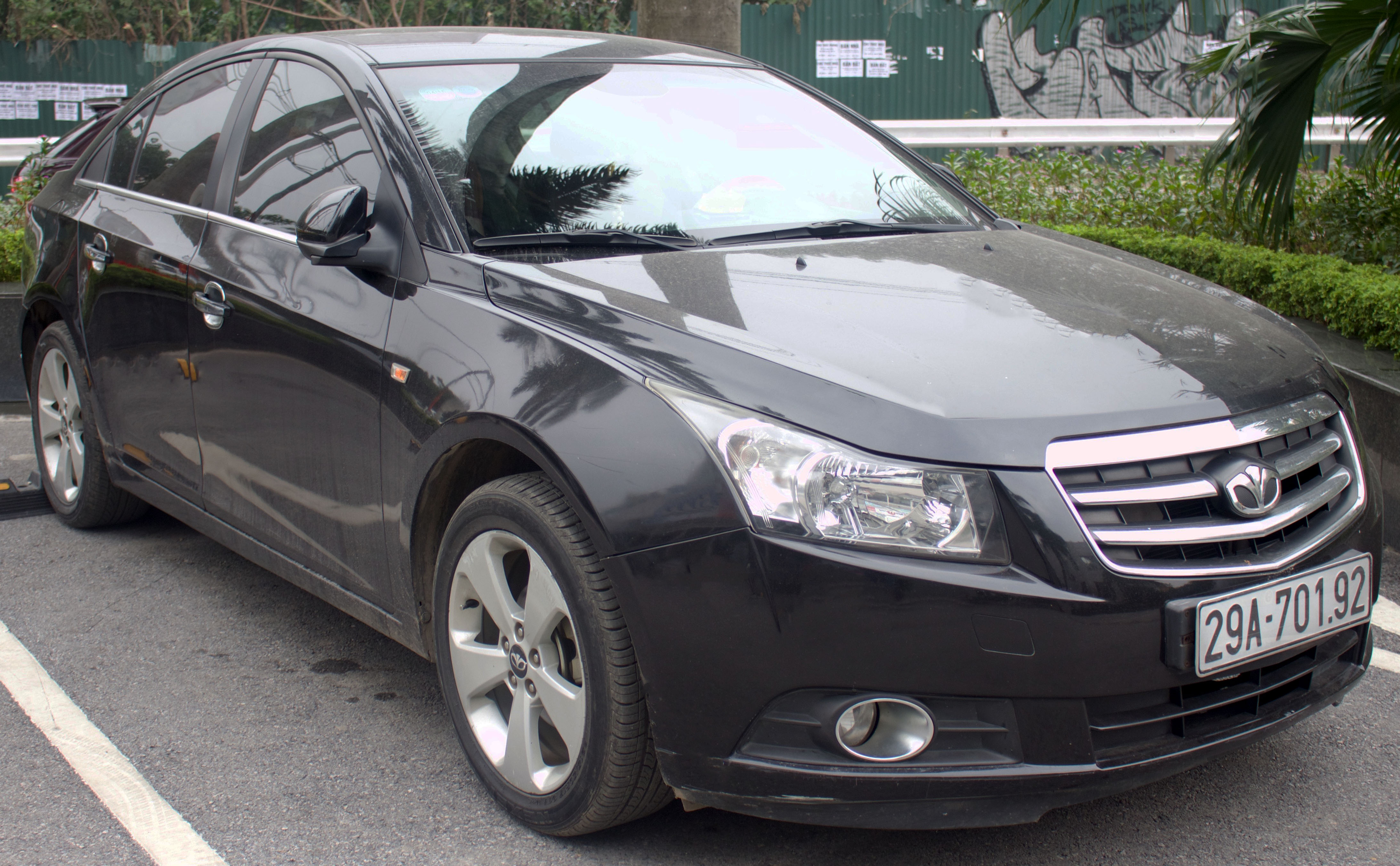 Daewoo Lacetti Premiere CDX sedan. Photographed in Hanoi